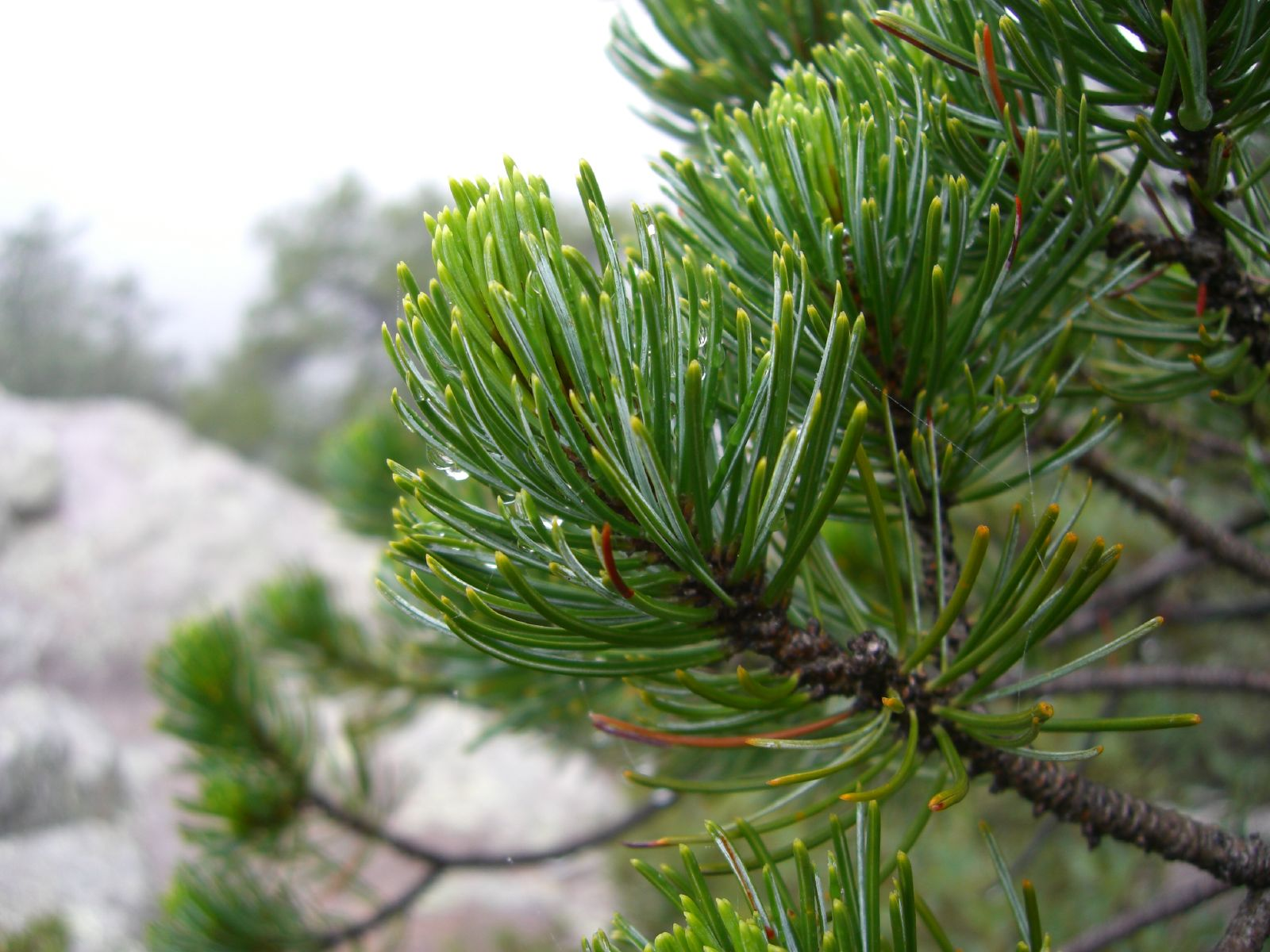 Pinus discolor foliage, Chiricahua National Monument, Cochise Co., Arizona, 32°1'47"N 109°18'56"W, 1900 m altitude.